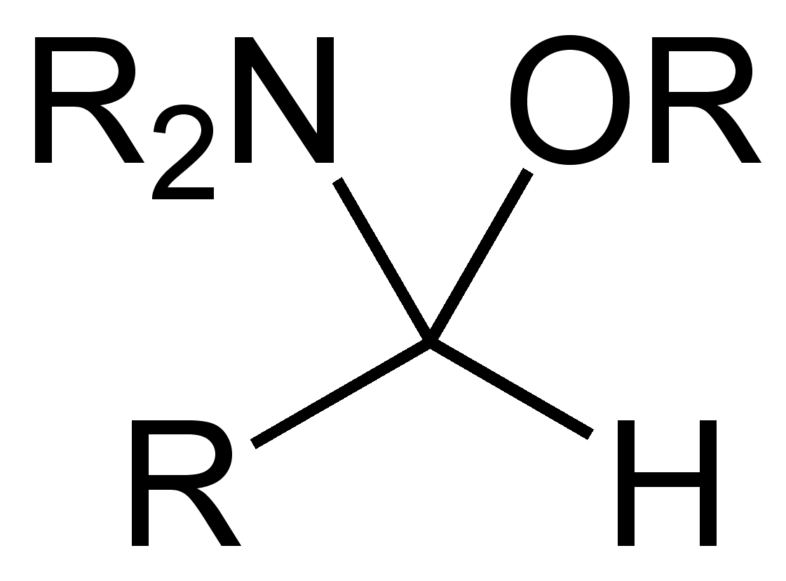 Skeletal structure for generic hemiaminal ether functional group derived from an aldehyde